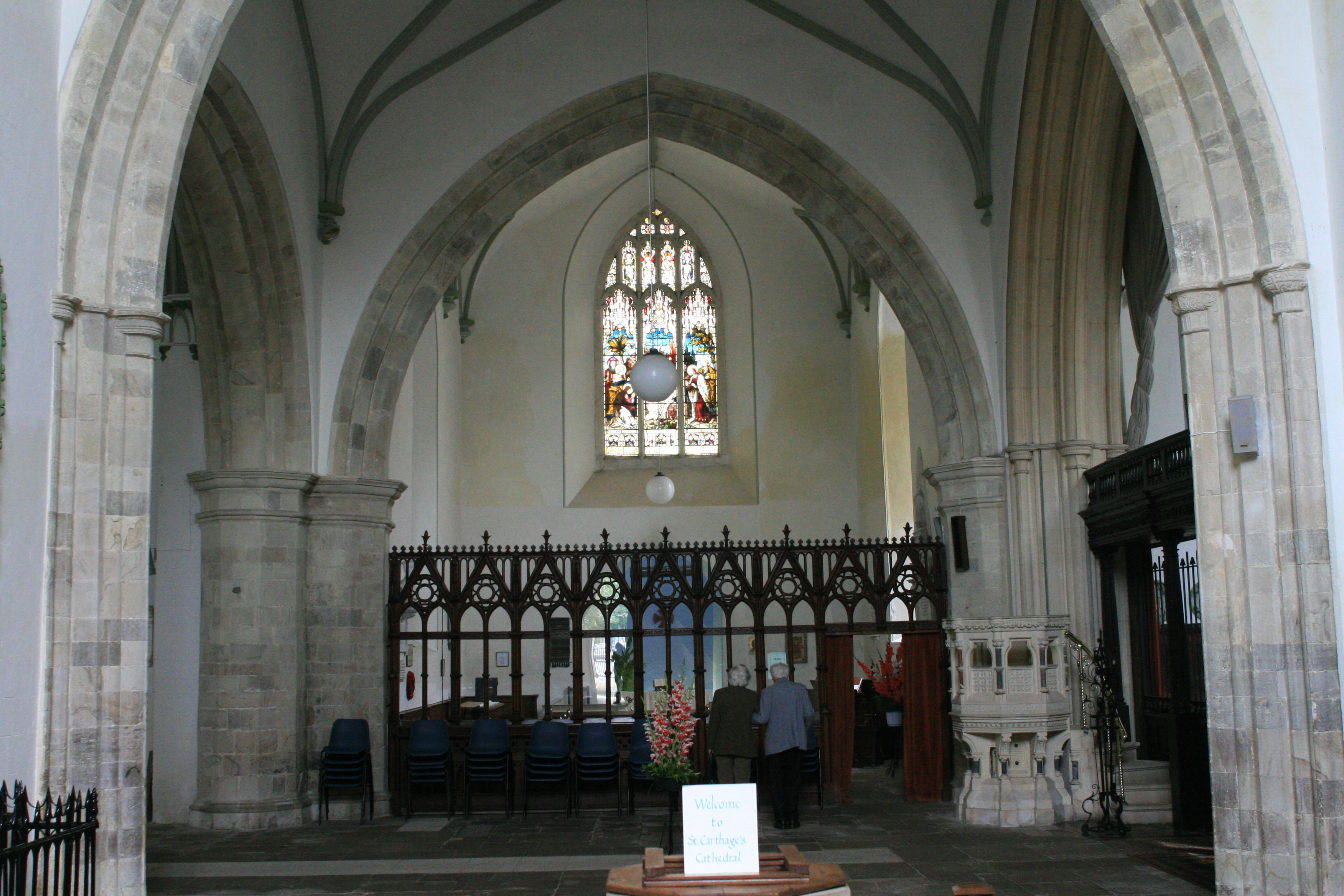 Lismore, County Waterford, Ireland View from the south transept into the north transept. The clustered columns of the south transept at the intersection date from the 13th century.